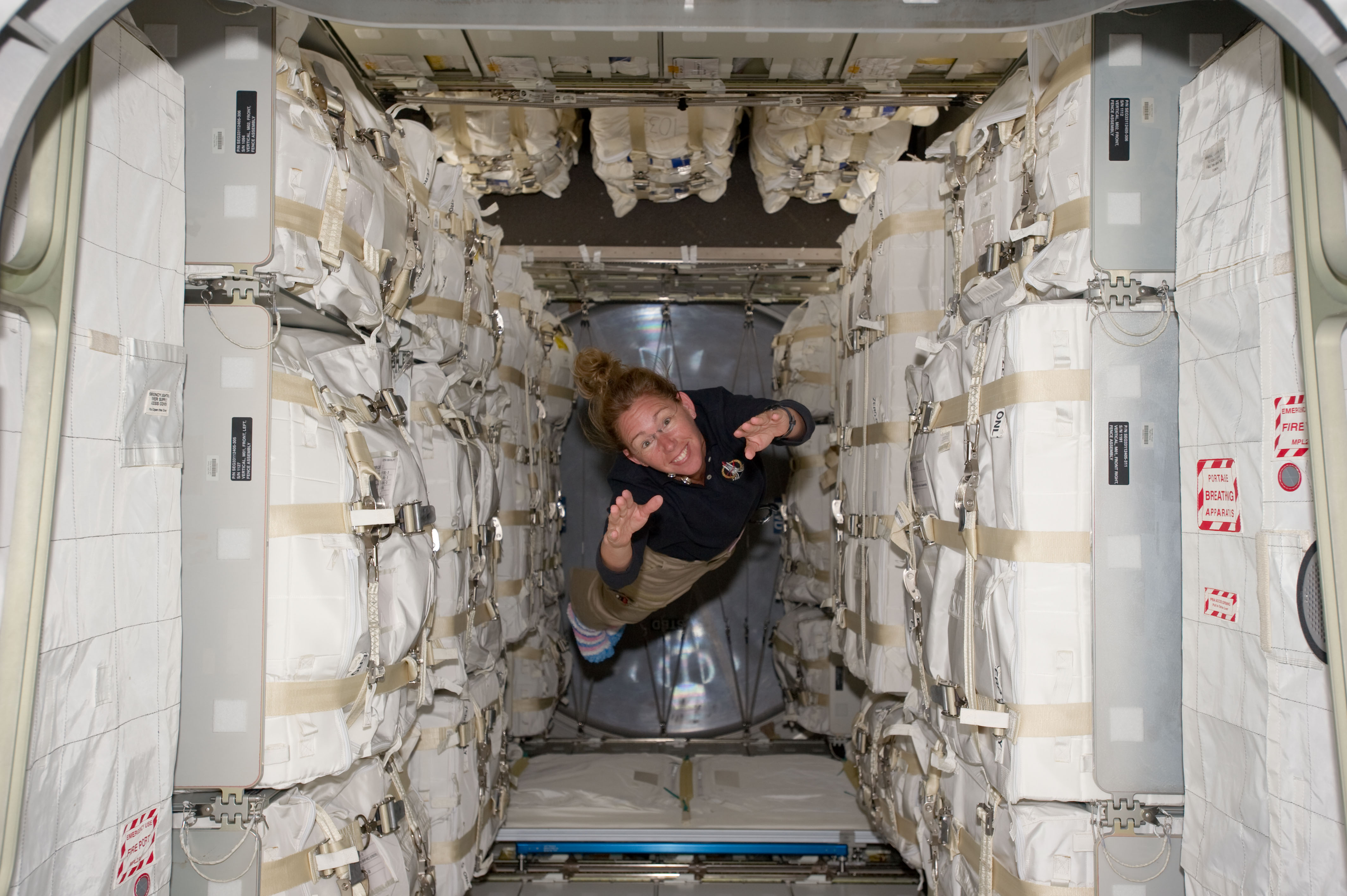 NASA astronaut Sandy Magnus, STS-135 mission specialist, may well be thinking of the word "ocean" for two reasons. Her navigation in the weightlessness of space could be loosely compared to swimming, and she is surrounded by an "ocean" of supplies and equipment in the Raffaello multi-purpose logistics module. The supplies and spare parts are for use and consumption for the International Space Station and its crews. Raffaello was transported up to the station by Magnus and her three crewmates aboard the space shuttle Atlantis.